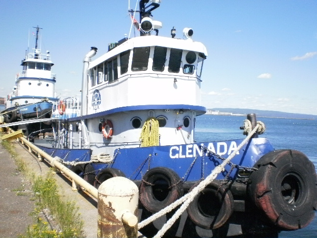 tug Glenada at the dock